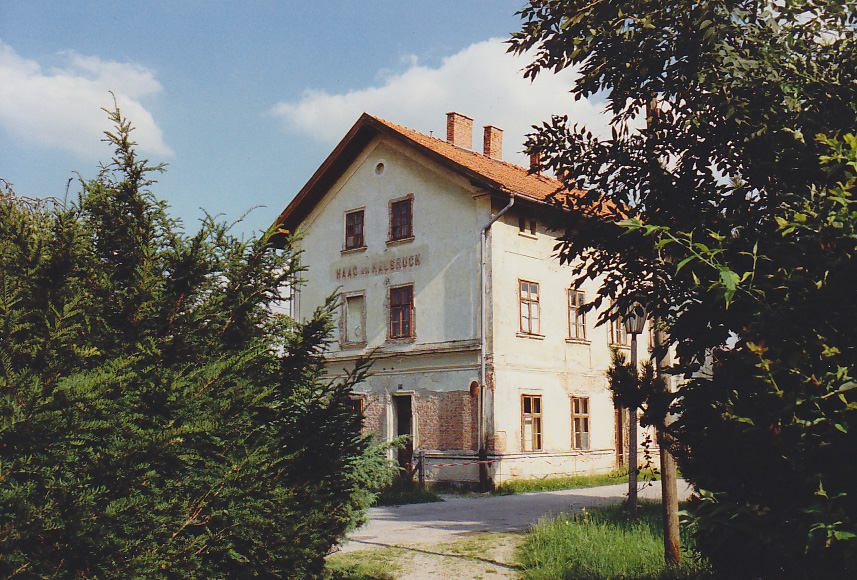 Train station "Haag am Hausruck" (Austria)